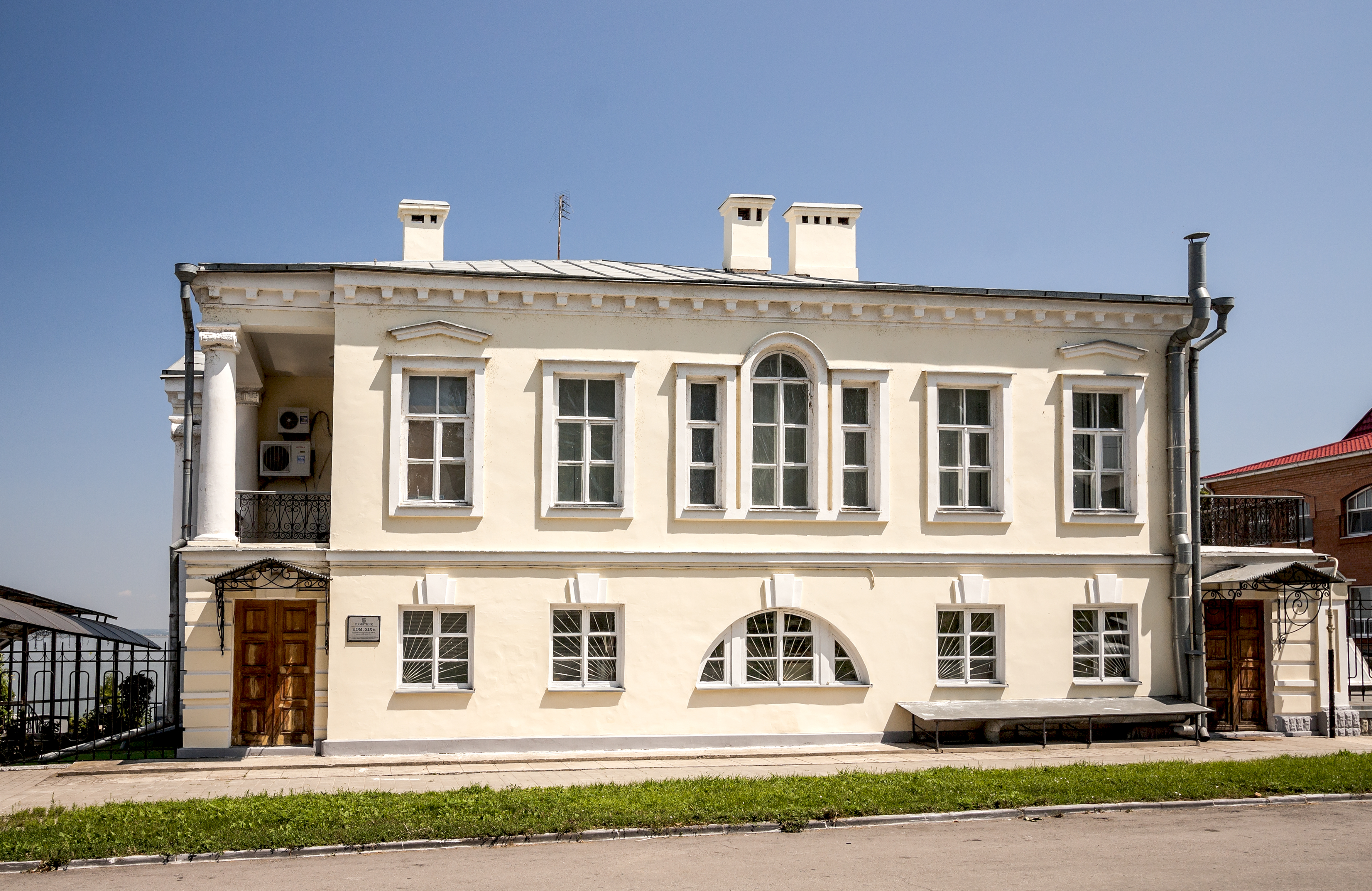 Residential building Volkova S. (Remy AG), street Schmidt, 16, Taganrog, Rostov region